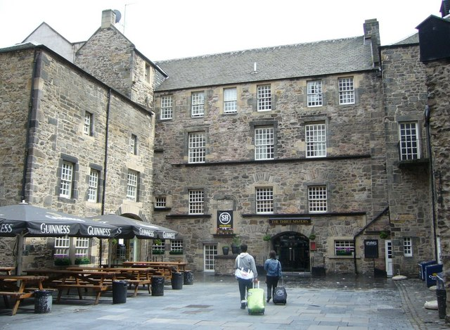 Tailors' Hall, Cowgate. Regarded, after St Giles and the Magdalen Chapel, as the most important surviving building in the Old Town of Edinburgh, the Hall, built in 1621, is now the Three Sisters hotel and restaurant. It owes its survival to a brewery which bought it in 1800 and used it for many years as a grain store. In 1638, it was the scene of a meeting of between two and three hundred clergymen who drafted the National Covenant for signing at Greyfriars the next day. From 1733 to 1747 it housed a theatre. 1302424